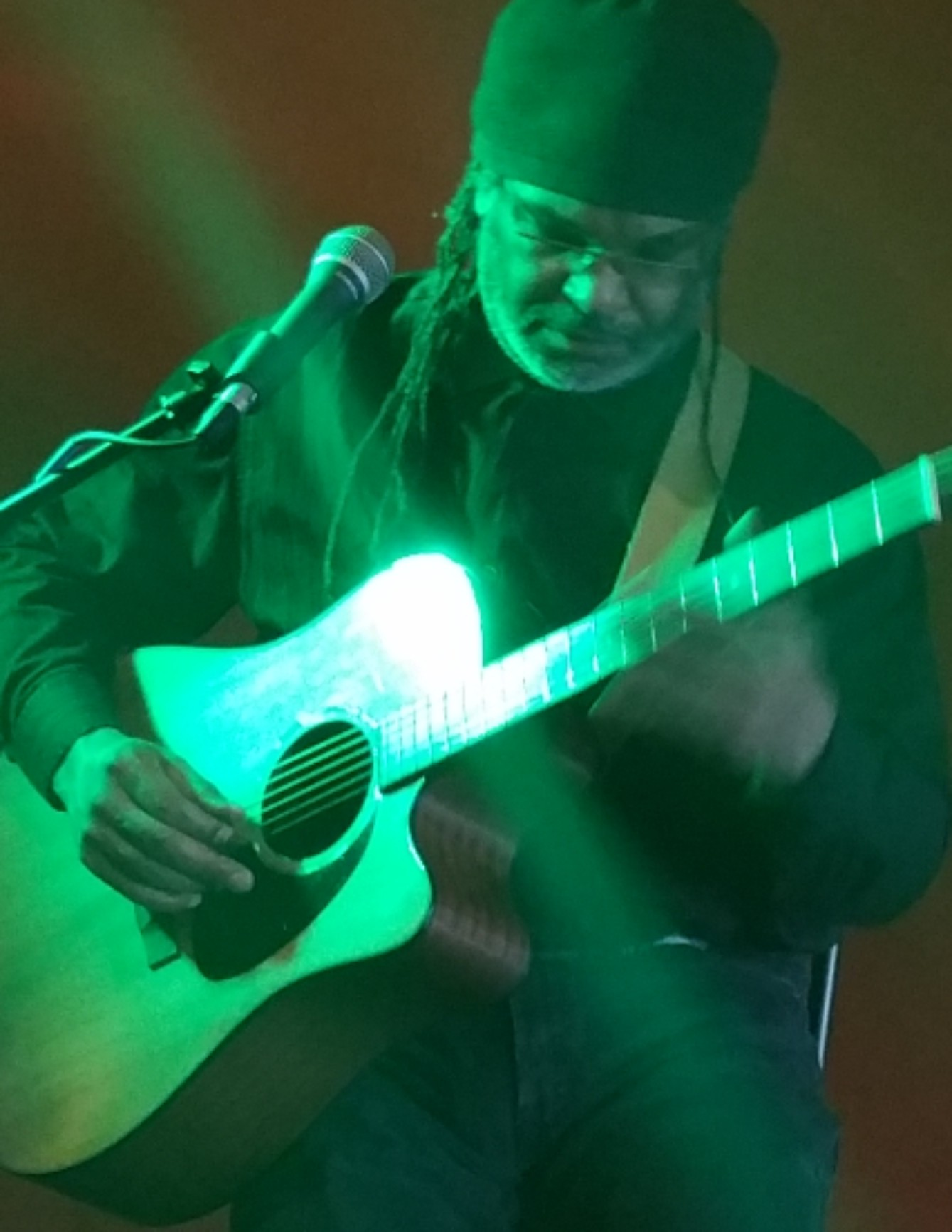 StannChampion